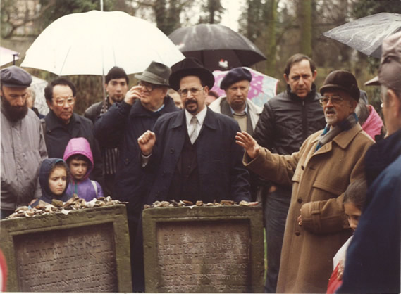 Rabbi Aron Daum on the historical and famous cemetery "Worms" with group of Jews from the former Soviet Union.